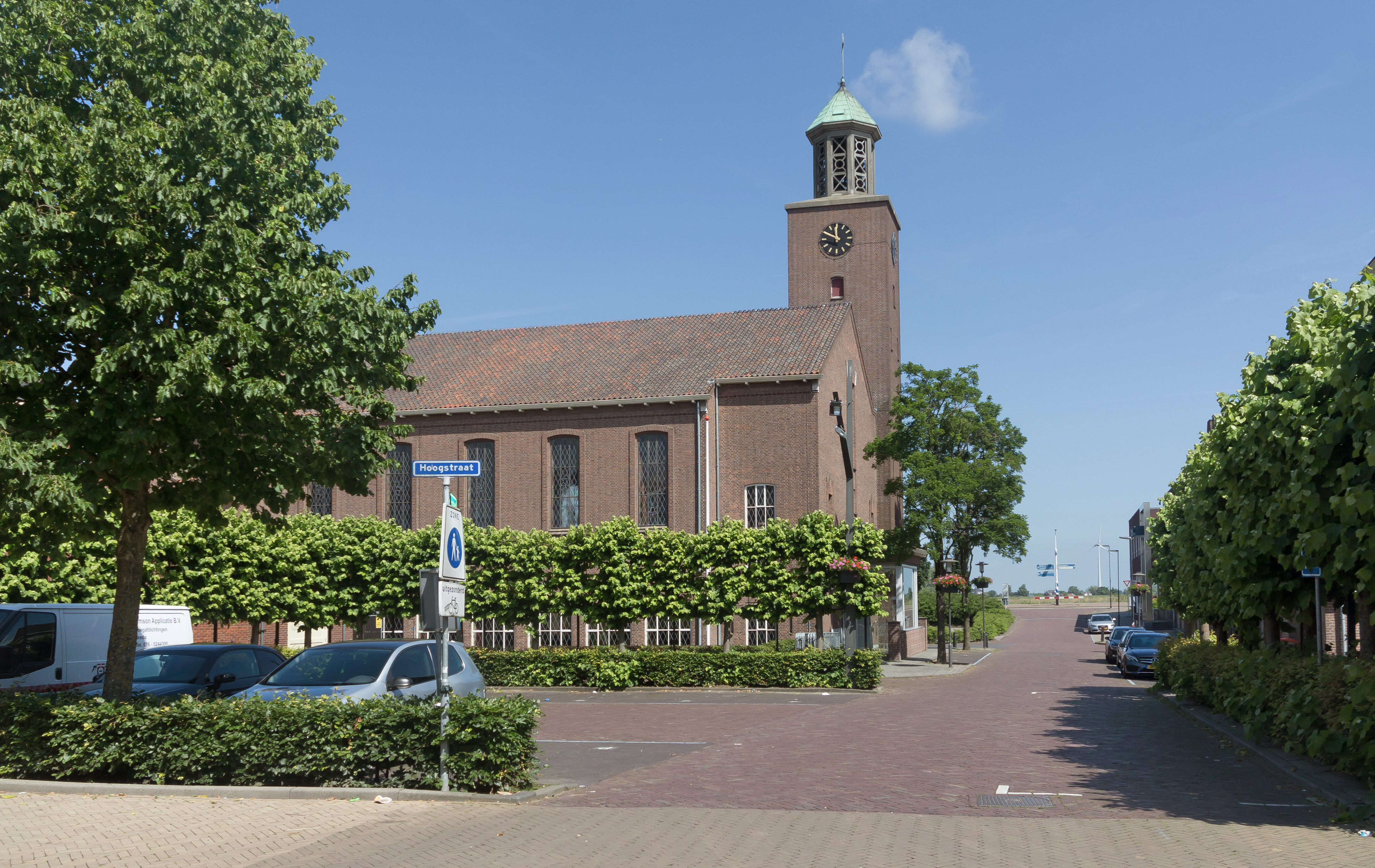 Werkendam, church: de Maranathakerk